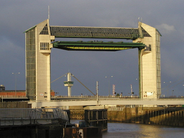 River Hull tidal barrier. The tidal barrier is situated at the end of the River Hull where it meets the River Humber.